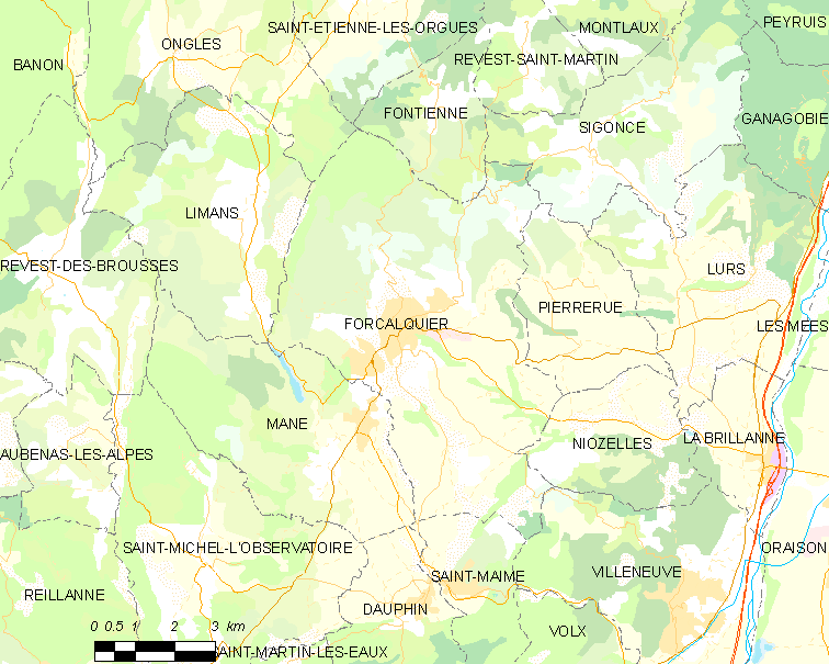 Map commune FR insee code 04088.png Légende